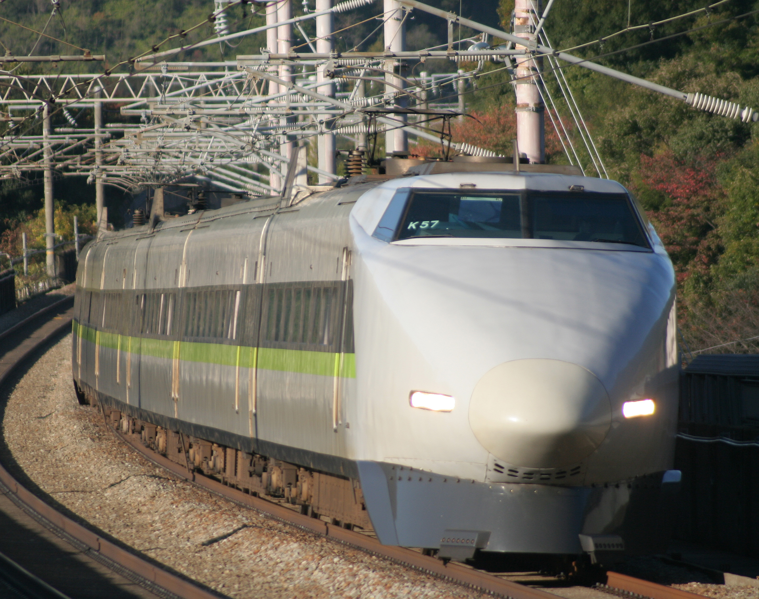 JR West 100 series shinkansen set K57 on the Sanyo Shinkansen Kodama 724 service between Okayama and Aioi, 18 November 2009